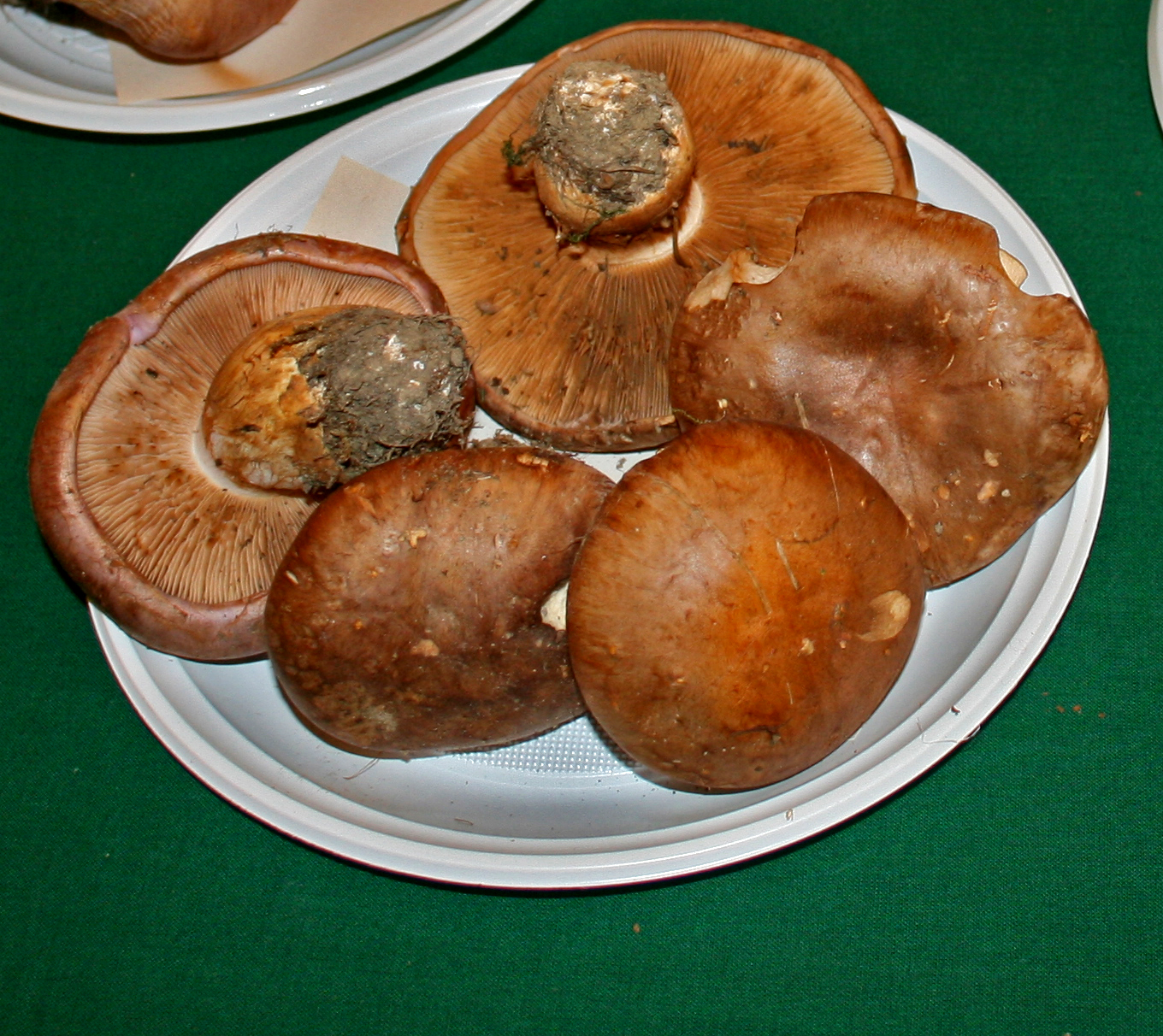 Cortinarius balteatus at the 12-th countrywide mushroom exhibition 2008, Žofín, Prague, Czech Republic